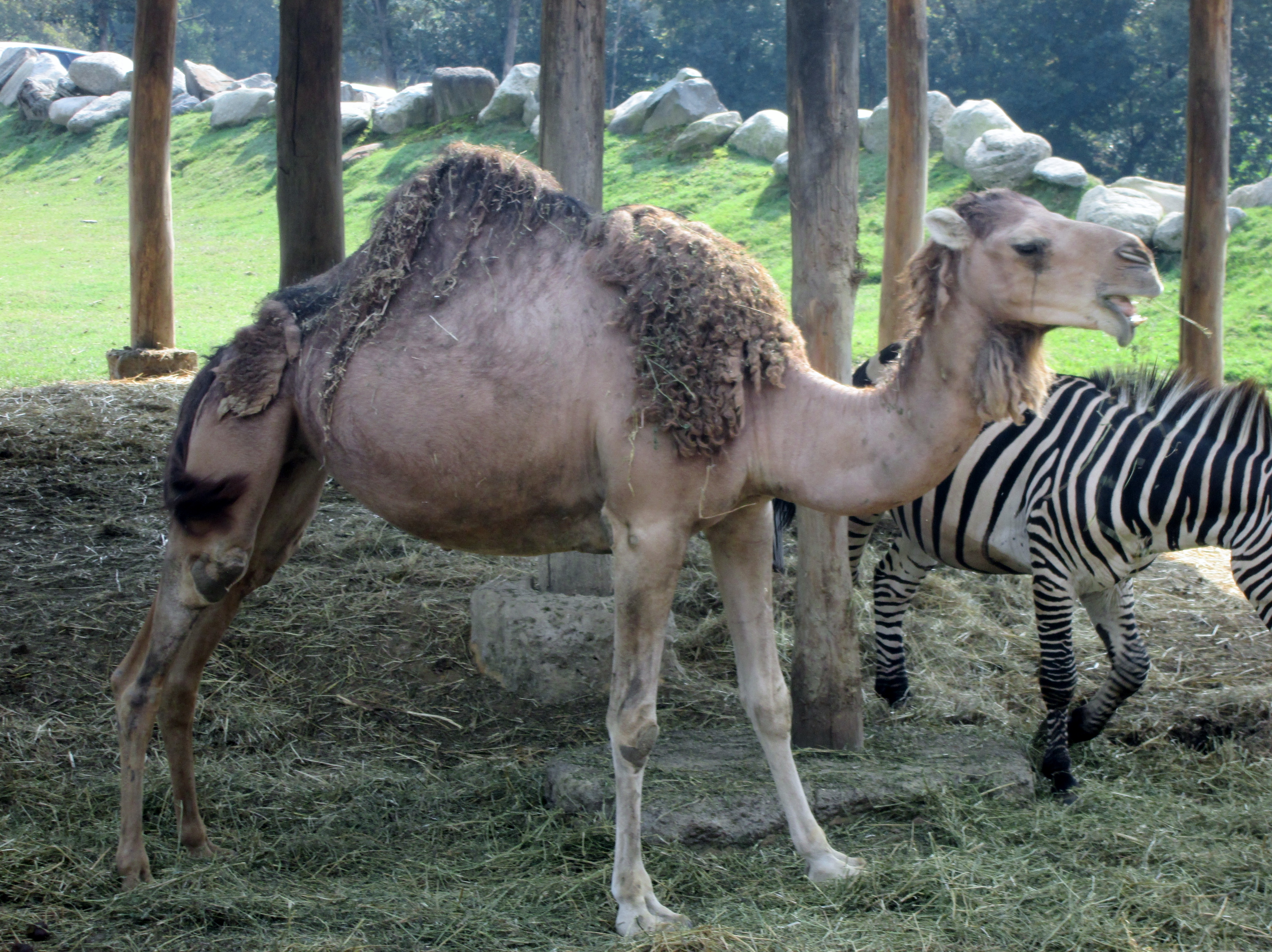 Dromedary at Pombia Safari Park ITALY